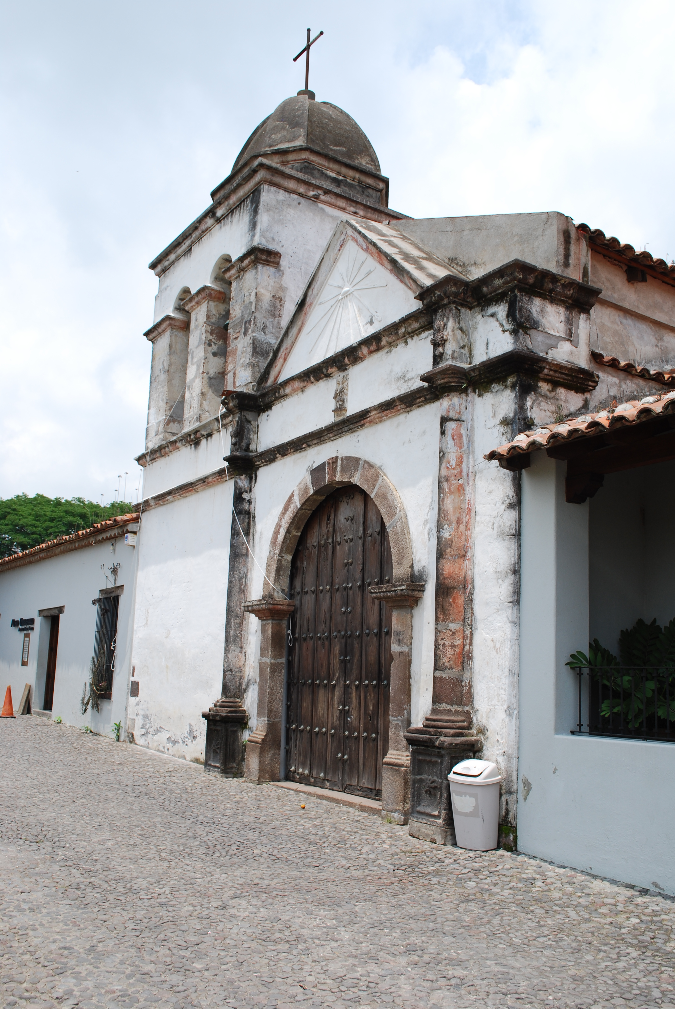 Chapel at the Nogueras Hacienda in Comala, Mexico